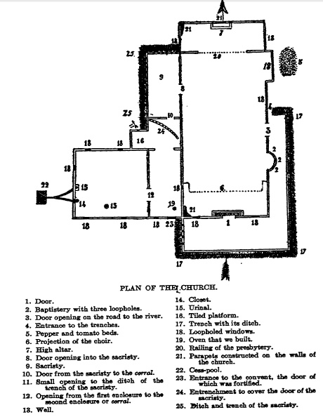 Map of church